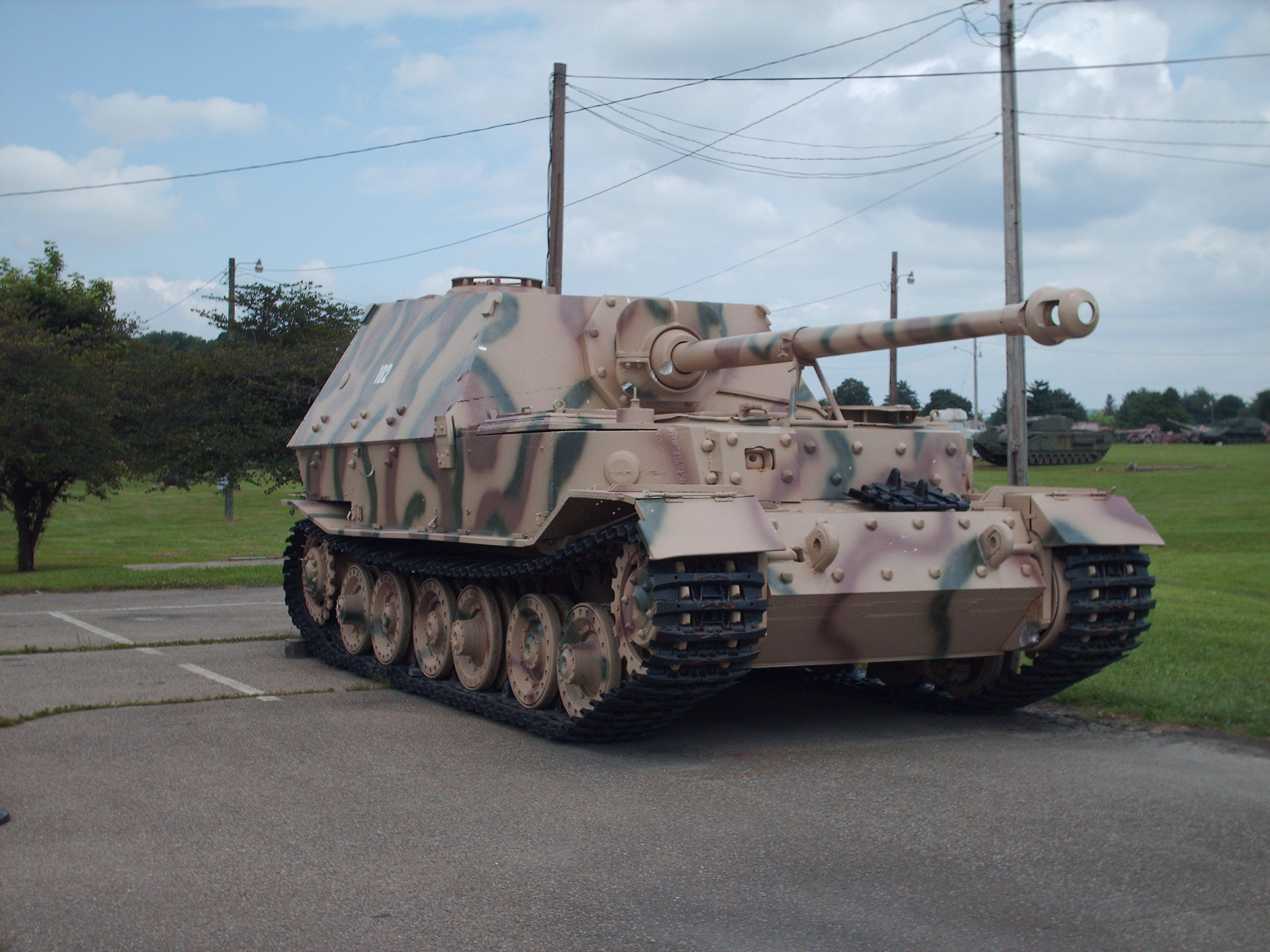 A German Panzerjäger Tiger (P) heavy tank destroyer, also known as an "Elefant" or a "Ferdinand", at the US Army Ordnance Museum, in Aberdeen, Maryland.